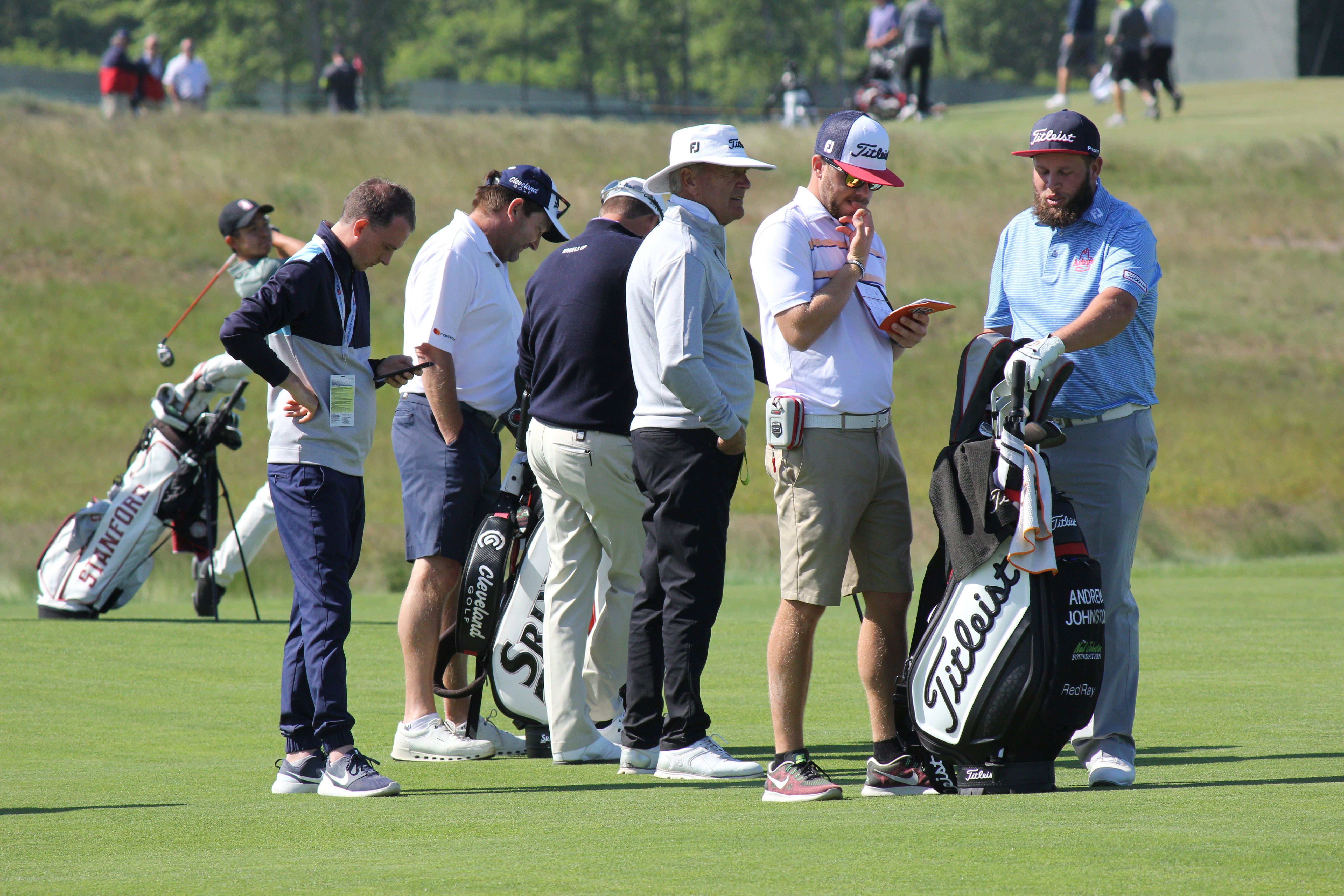 Andrew Johnston US Open